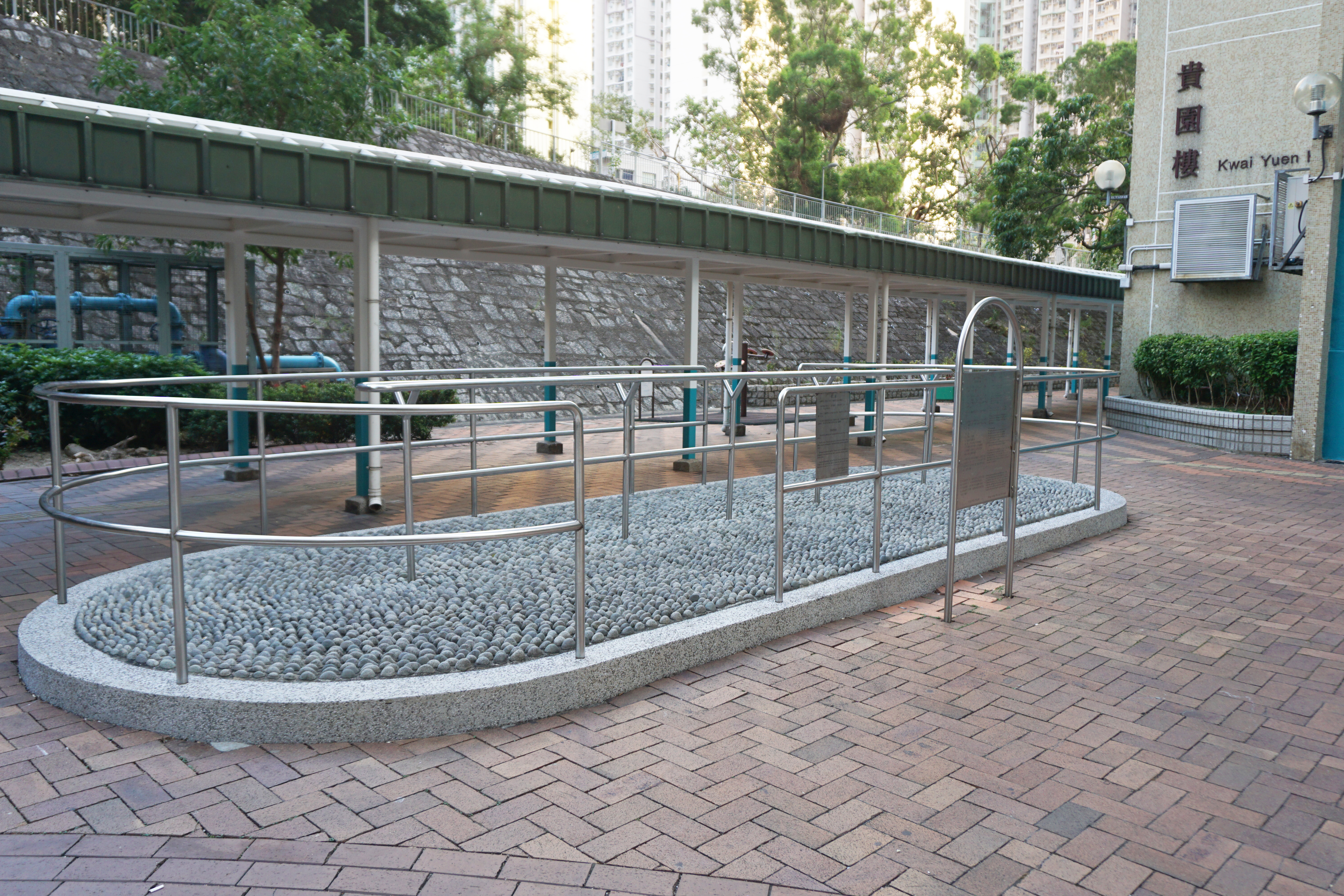 Chuk Yuen South Estate in Wong Tai Sin, Hong Kong.